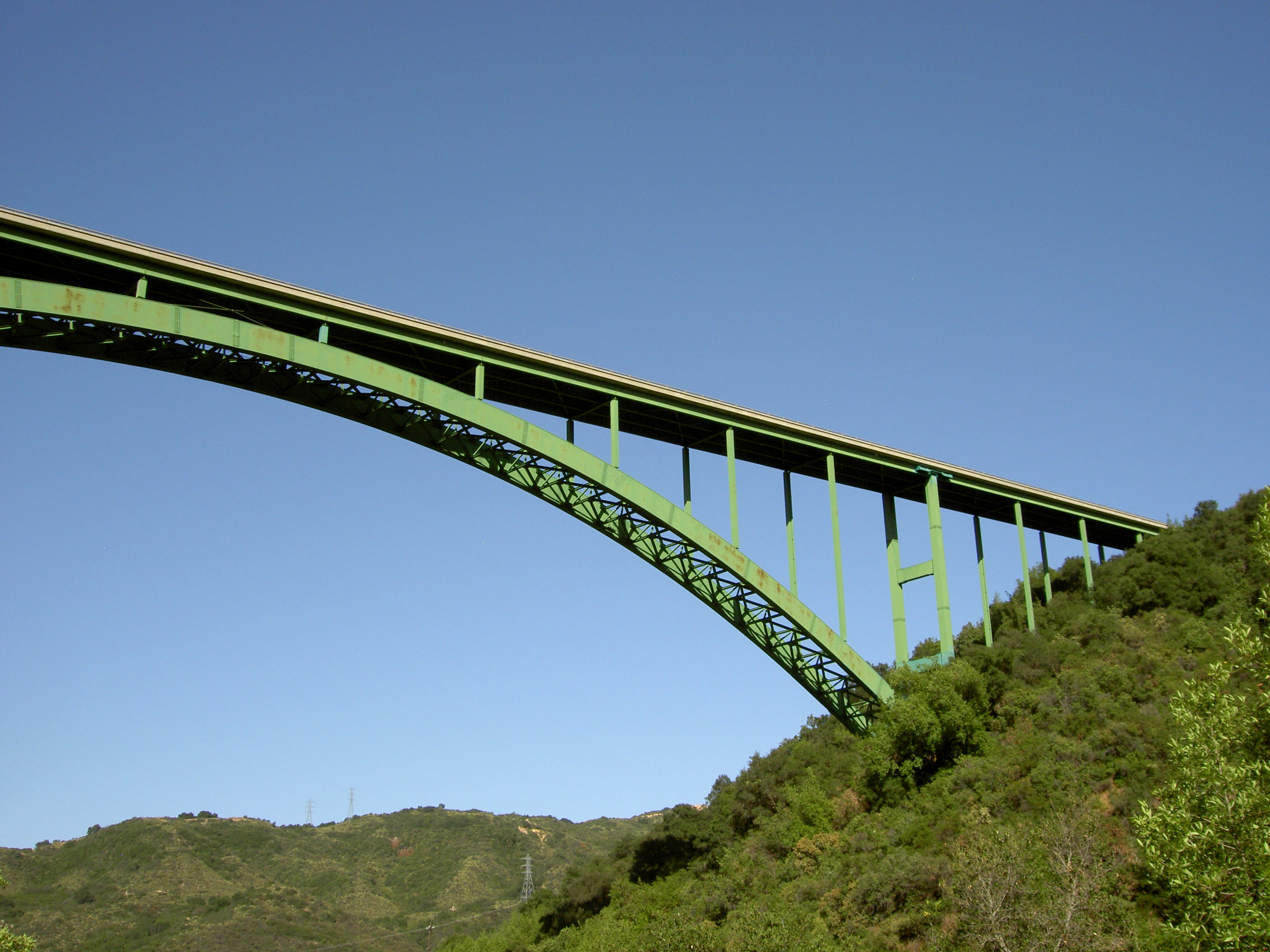 A photo of one side of the Cold Spring Canyon Arch Bridge, taken from the highway below.